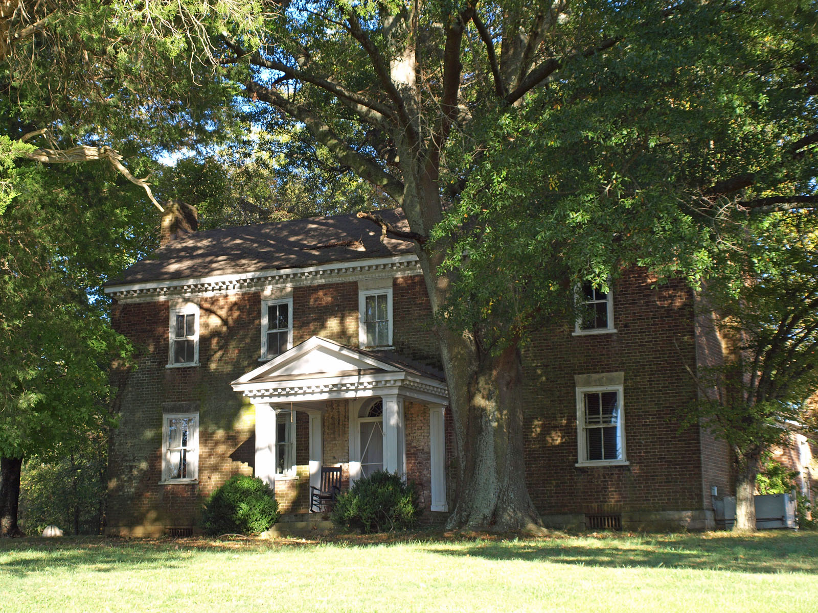 The McCartney-Bone House in Maysville, Alabama, listed on the National Register of Historic Places.